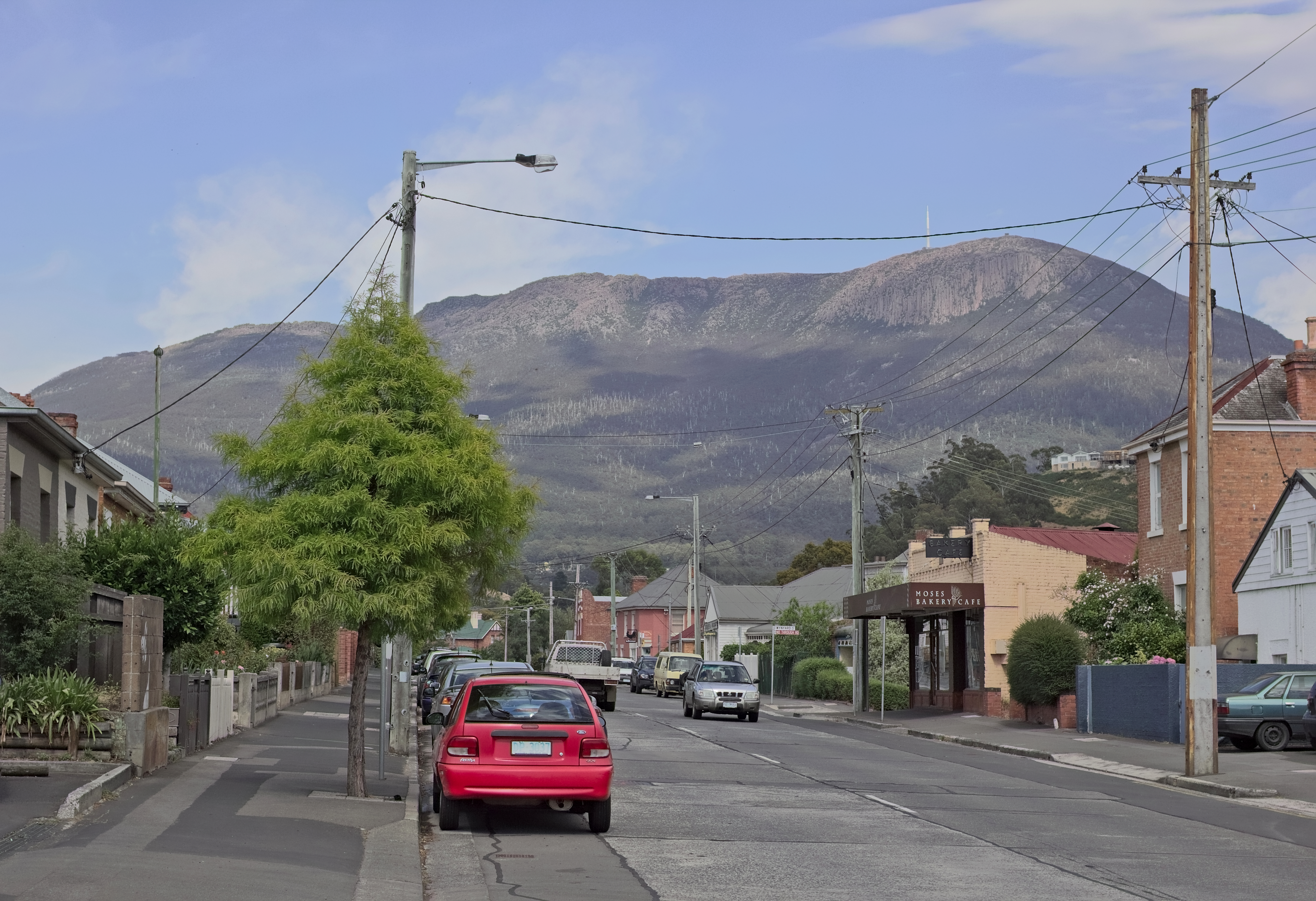 Strickland Avenue in Hobart, Tasmania. Looking west towards Mount Wellington.